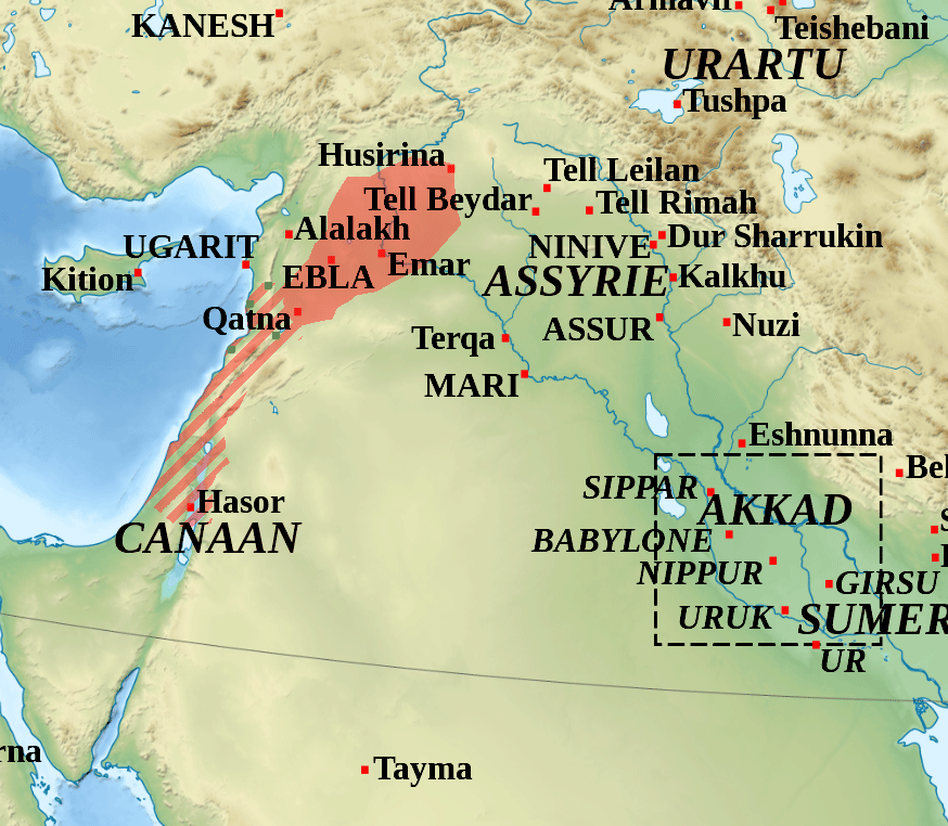 Kingdom of Ebla and Influence in Mediterranean Levant